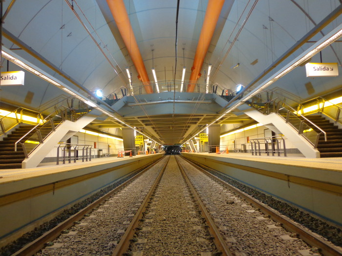 Las Heras station on Line H of the Buenos Aires Underground.